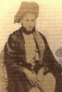 Sultan Majid bin Said of Zanzibar, he ruled between 1856 - 1870